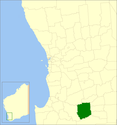 Description=Location of the Local Government Area in Western Australia